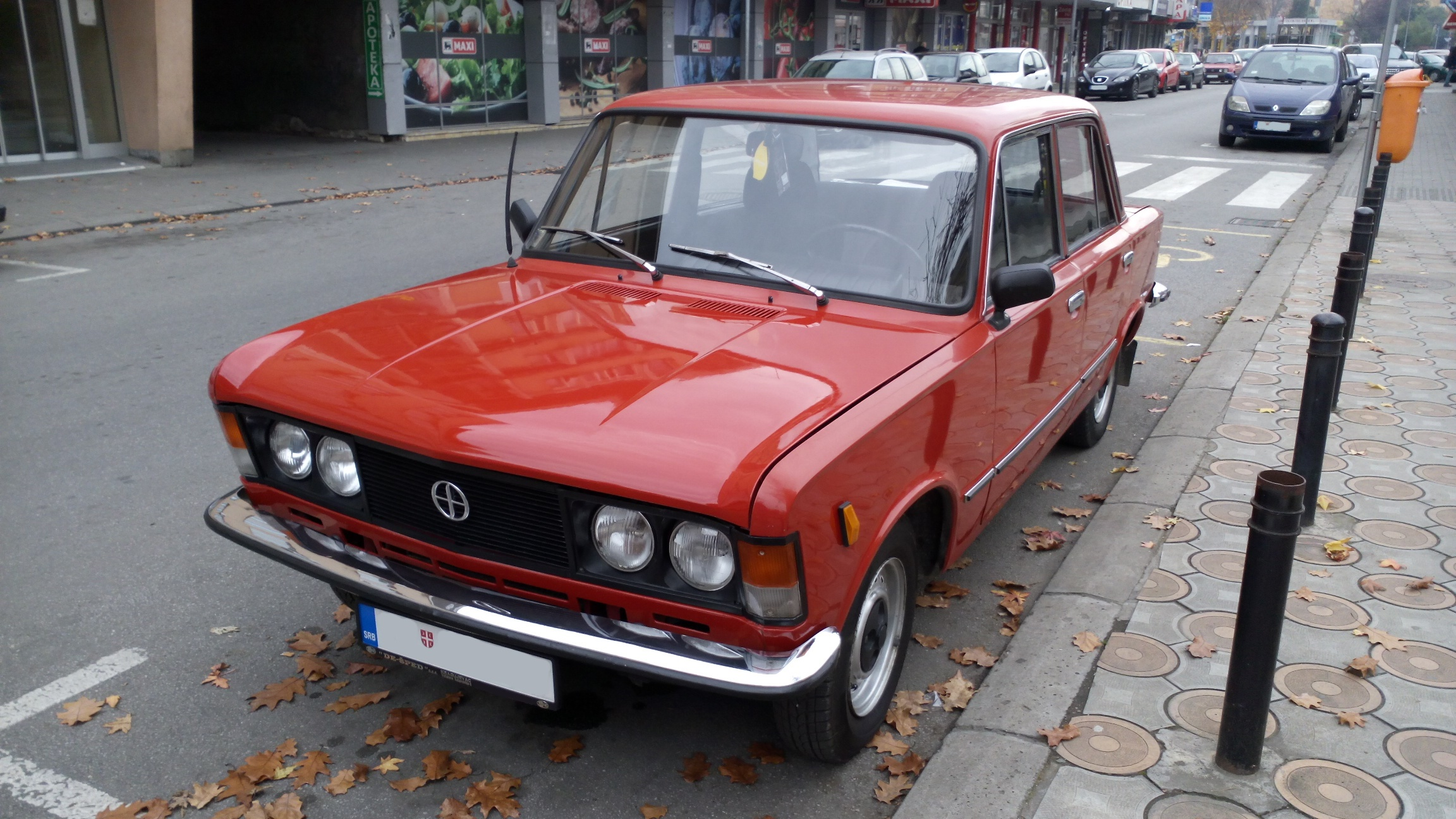 Fully restored FSO 125p (Polski Fiat 125p), known as Pezejac in Kragujevac, Serbia.